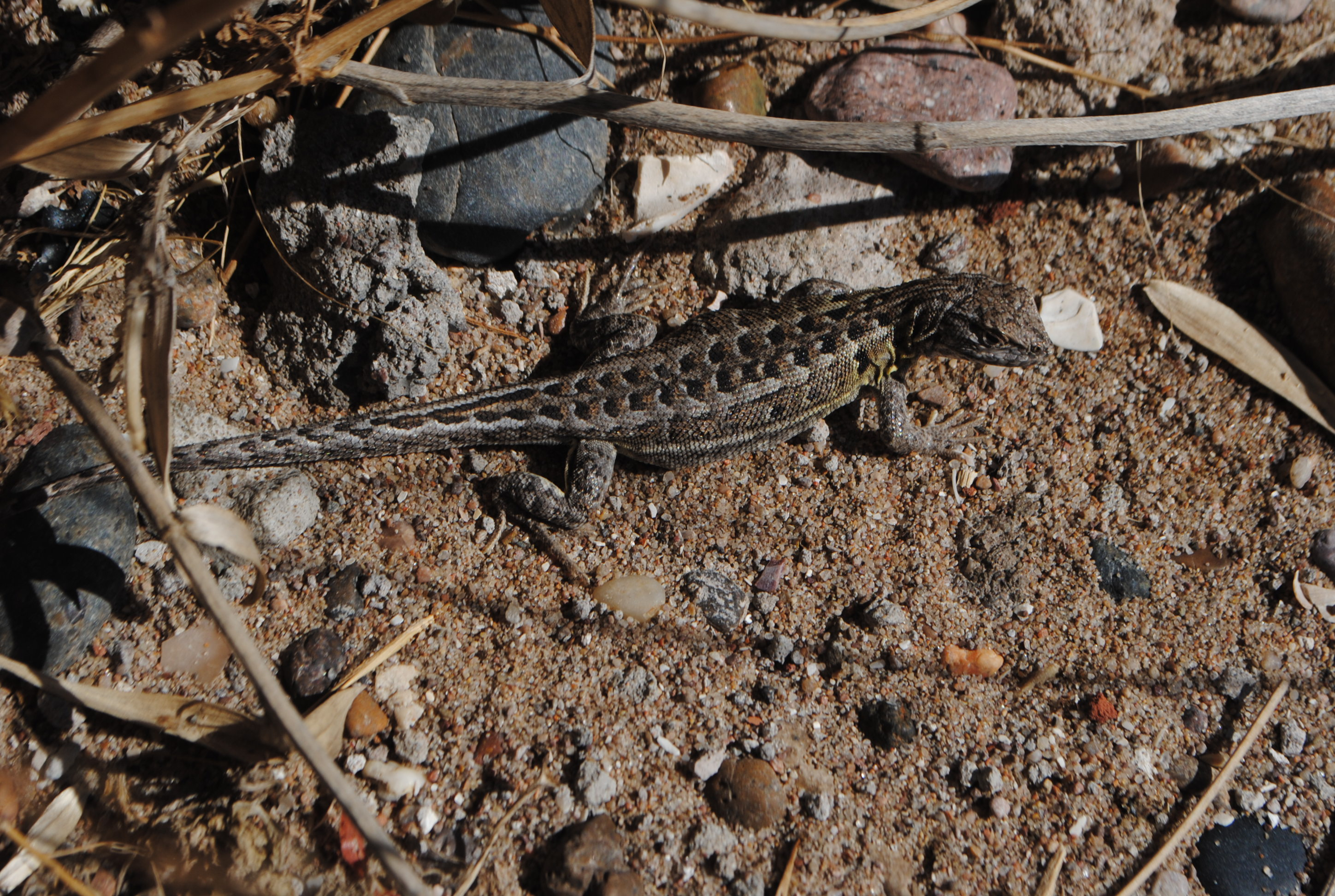 Lioleamus wiegmannii known as "Lagartija de Wiegmann" photo taken in Colonia Cilavert, Las Grutas, Rio Negro province, Patagonia, Argentina